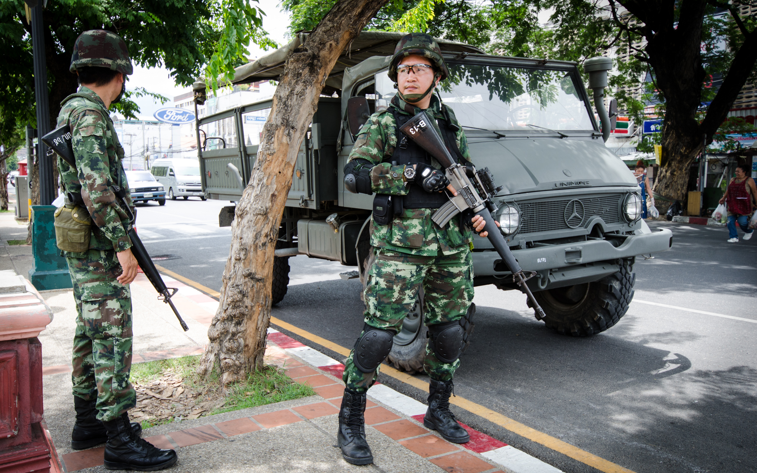 Thai military at Chang Phueak Gate in Chiang Mai. The two ladies at the right hand side of the image are bringing the contingent of soldiers stationed at Chang Phueak Gate lunch.